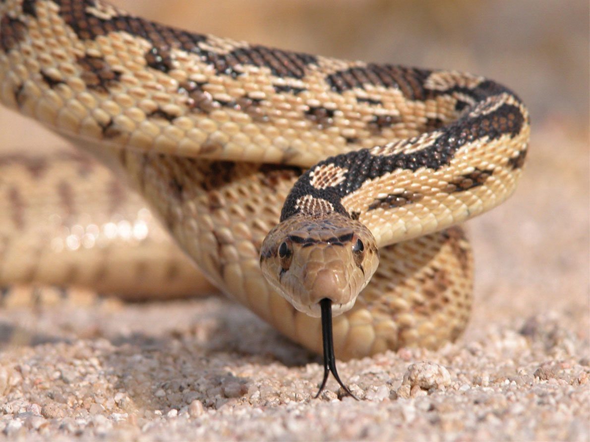 The gopher snake is one of the many reptiles common to the Mojave Desert area. Other snakes seen here are the Mojave green rattlesnake, the sidewinder rattlesnake and the California king snake.